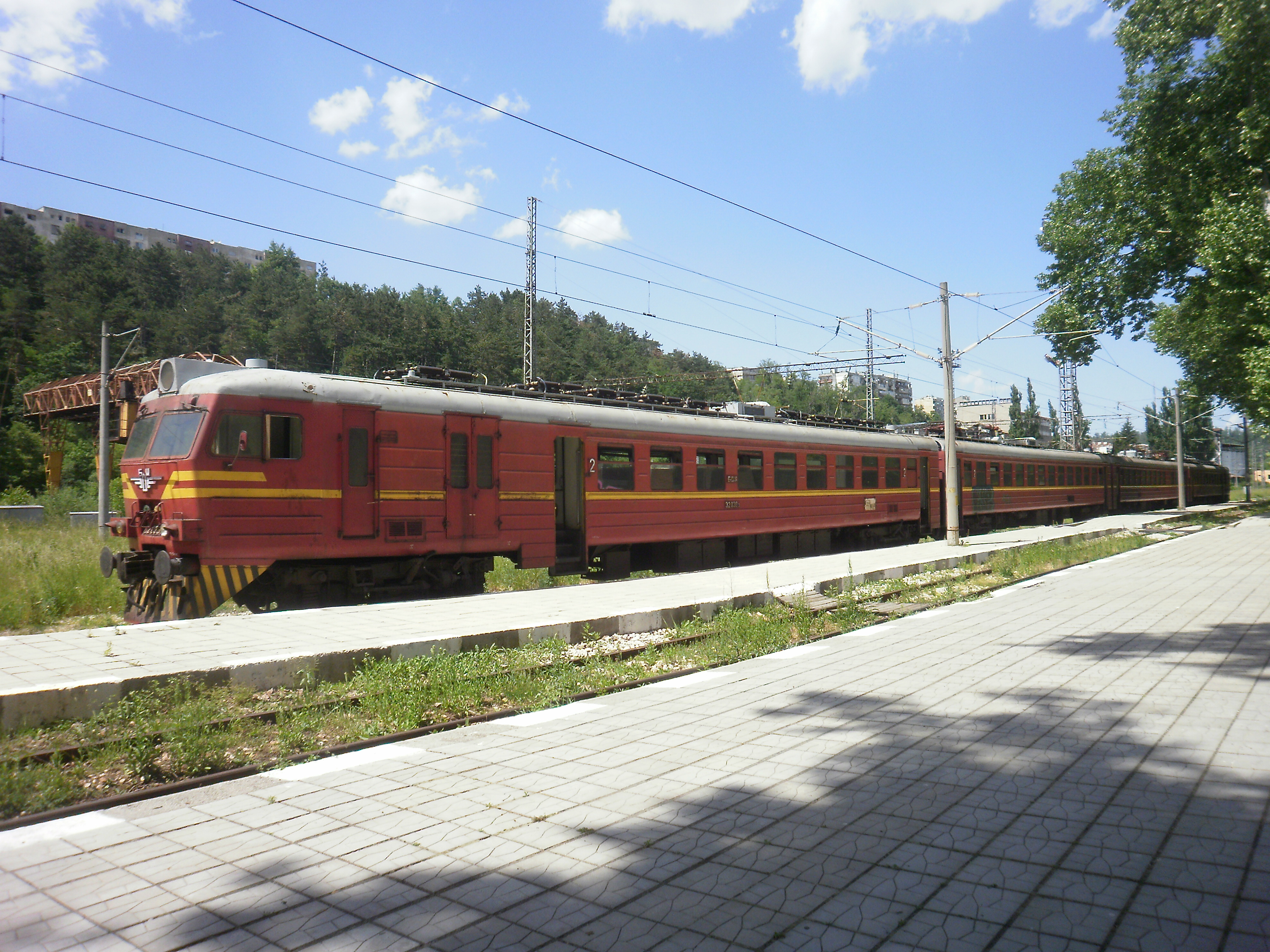 Train Gabrovo-Tsareva livada Railway, Bulgaria.